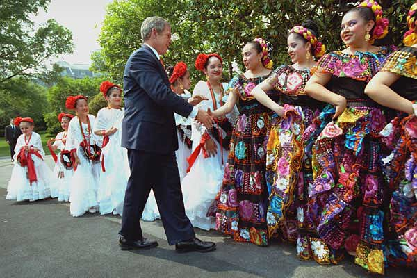 President George W. Bush greets dancers before their performance during Cinco De Mayo festivities at the White House Friday, May 4, 2001.